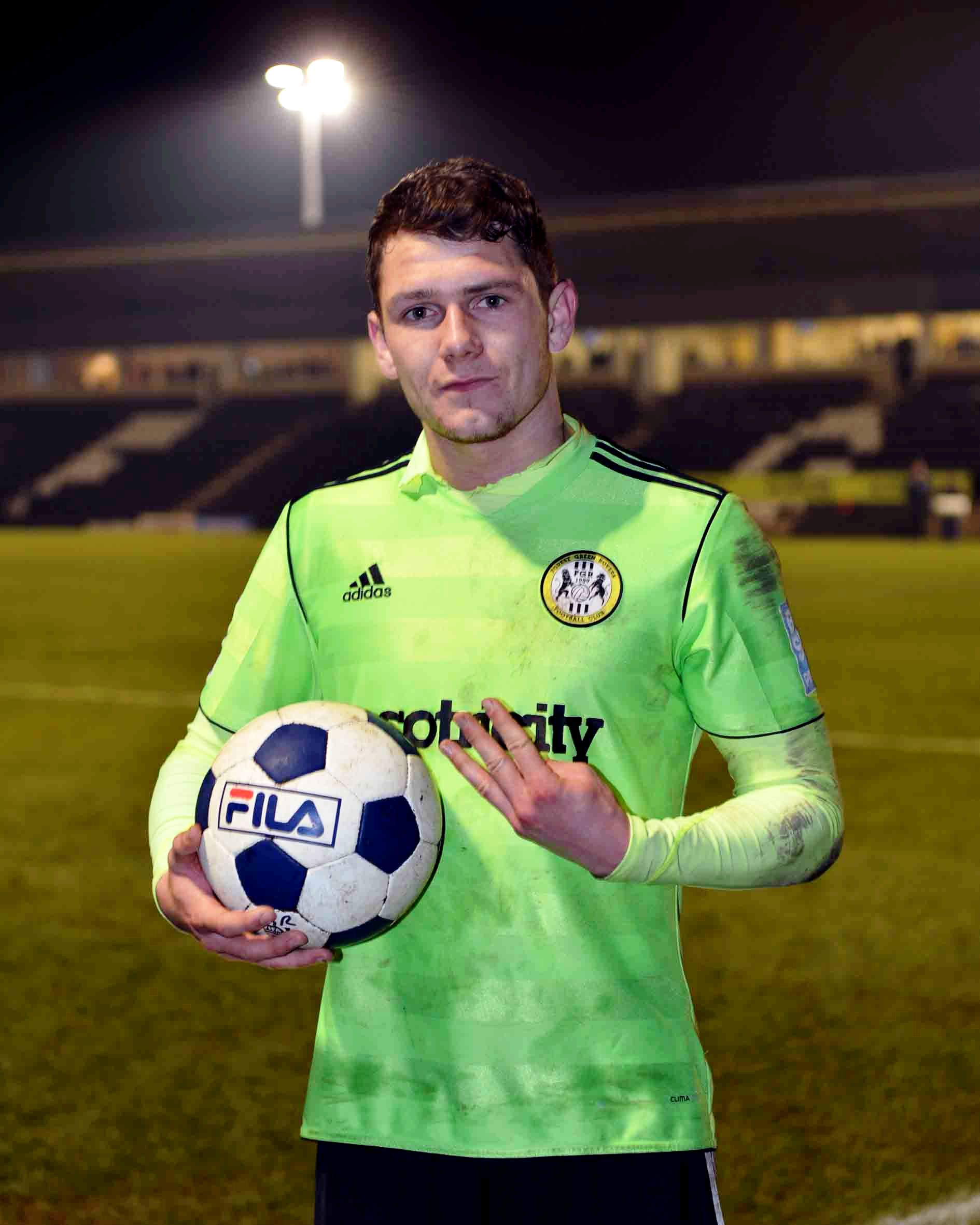 James Norwood after scoring a hat-trick for Forest Green Rovers against Braintree Town on 12 February 2013.